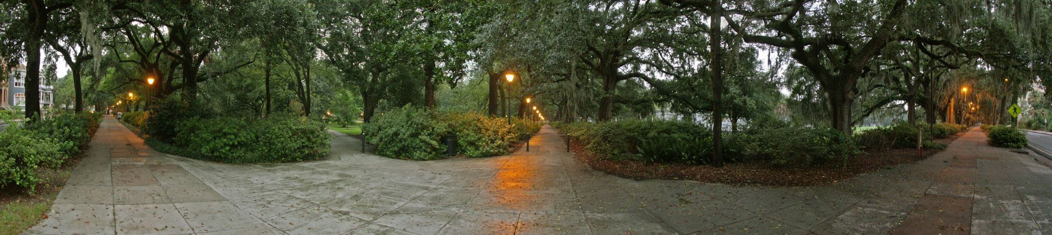 Panorama of Forsyth Park, Savannah, Georgia